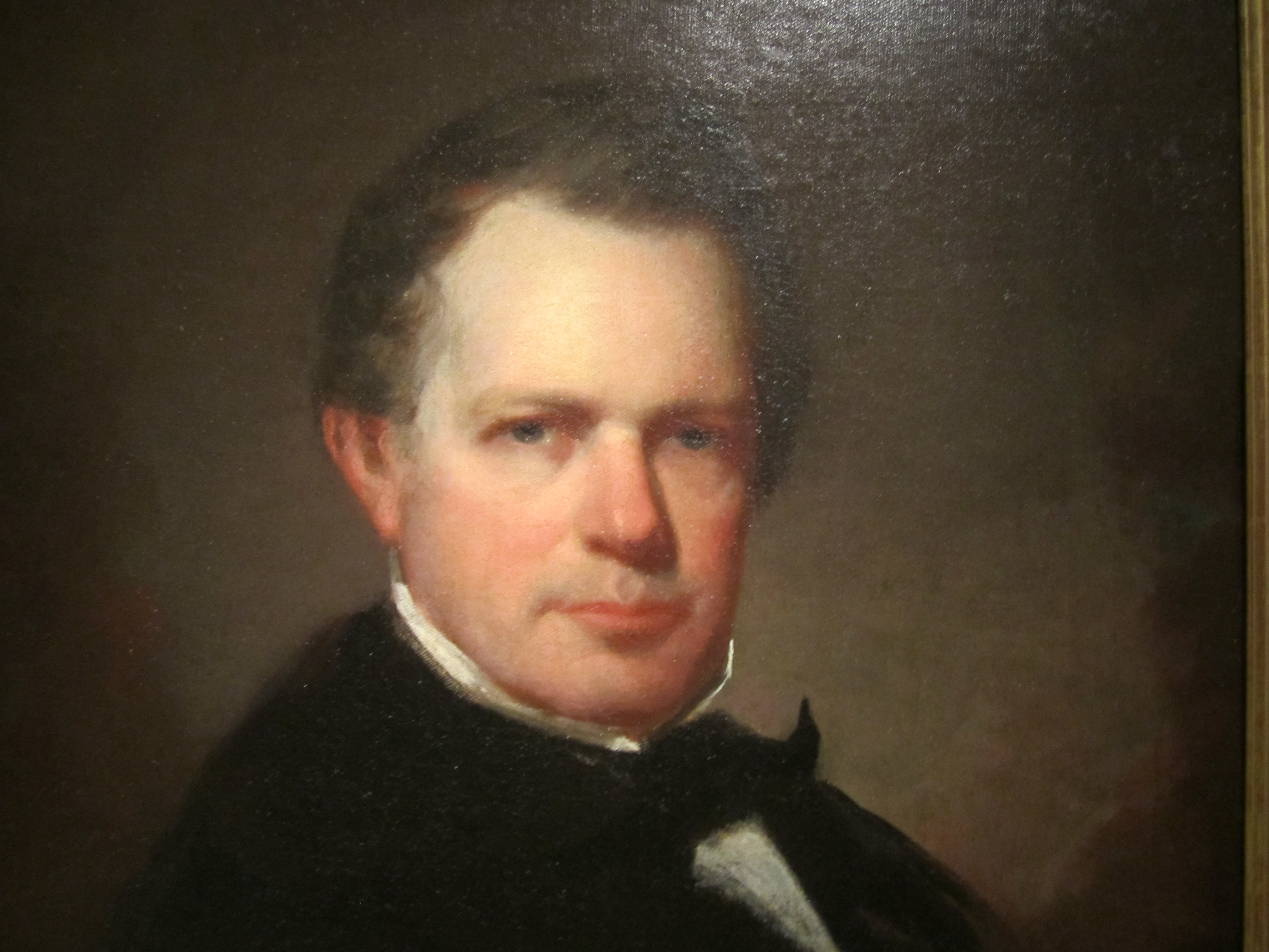 I took photo of William Gilmore Simms at National Portrait Gallery in Washington, D.C., with Canon camera. Public domain. Official record here.